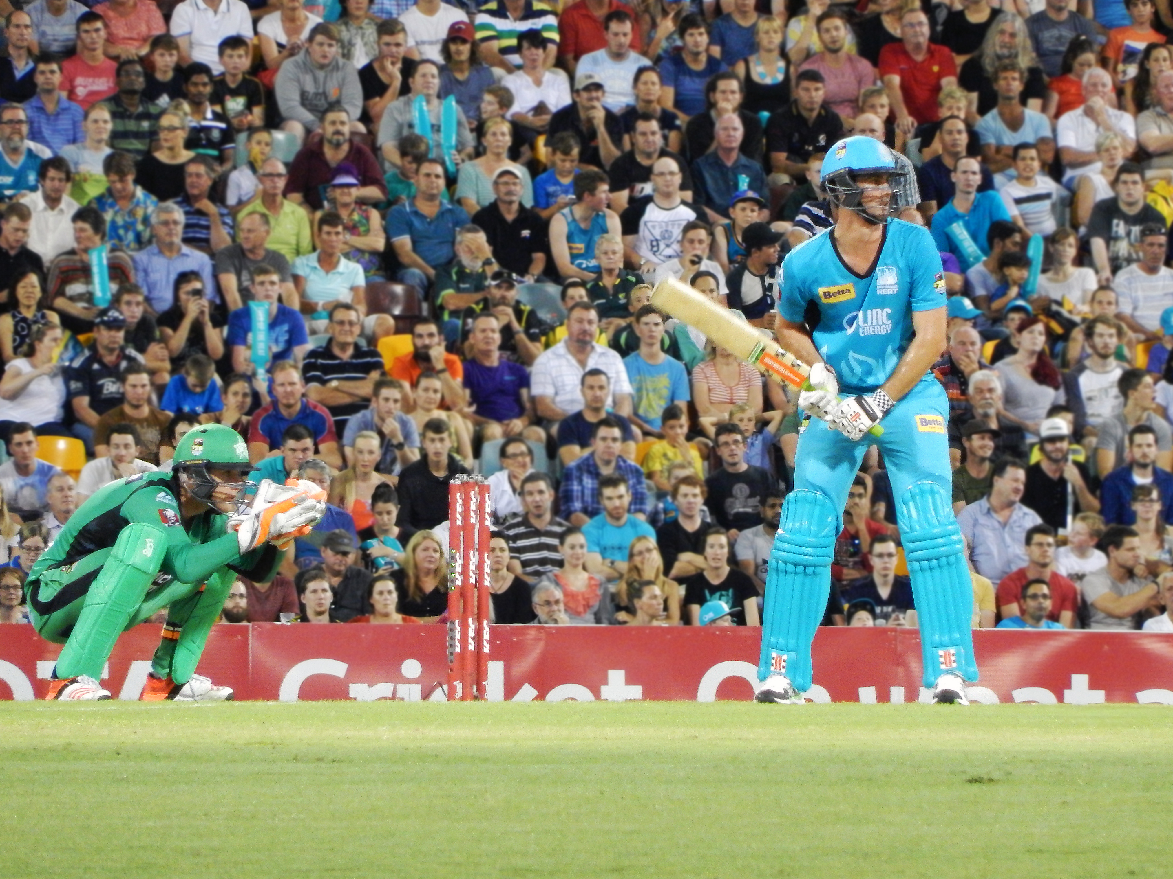 Ben Cutting of Brisbane Heat batting against Melbourne Stars in 2014 at the Gabba as wicketkeeper Tom Triffitt looks on